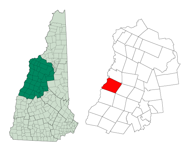 Map of a municipality in Belknap County, New Hampshire